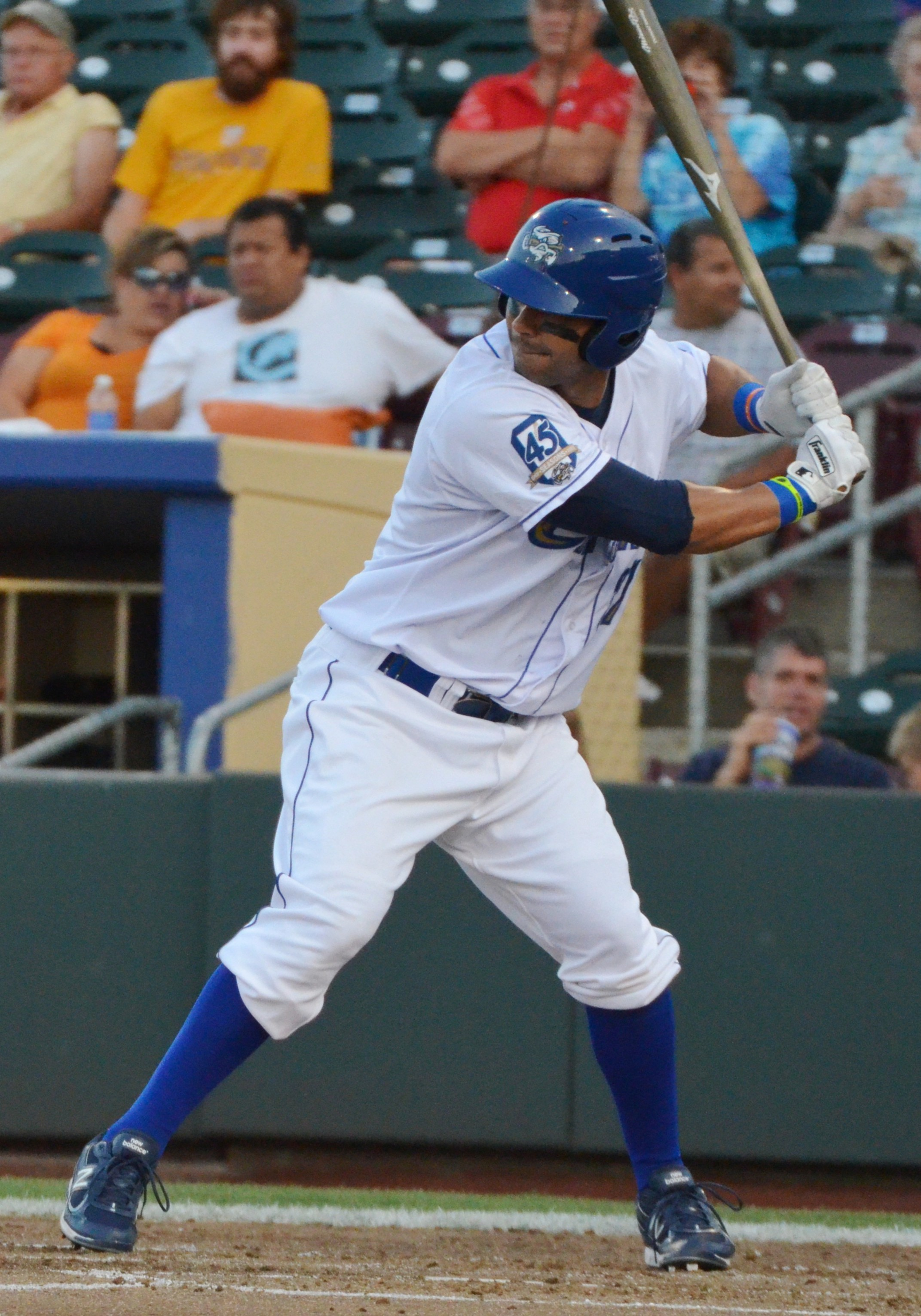 Carlos Peña batting for Omaha in 2013